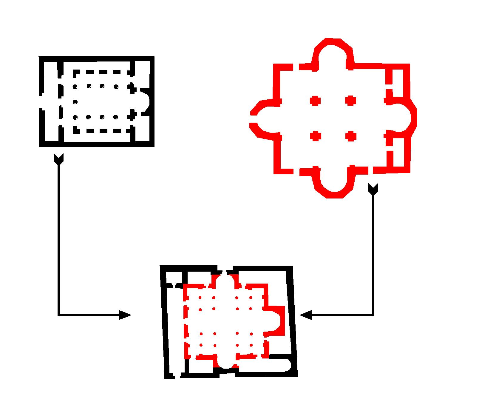 Church of the Granite Columns (Nubia) in comparions to a Nubian church (left) and the Armenian church of Dwin